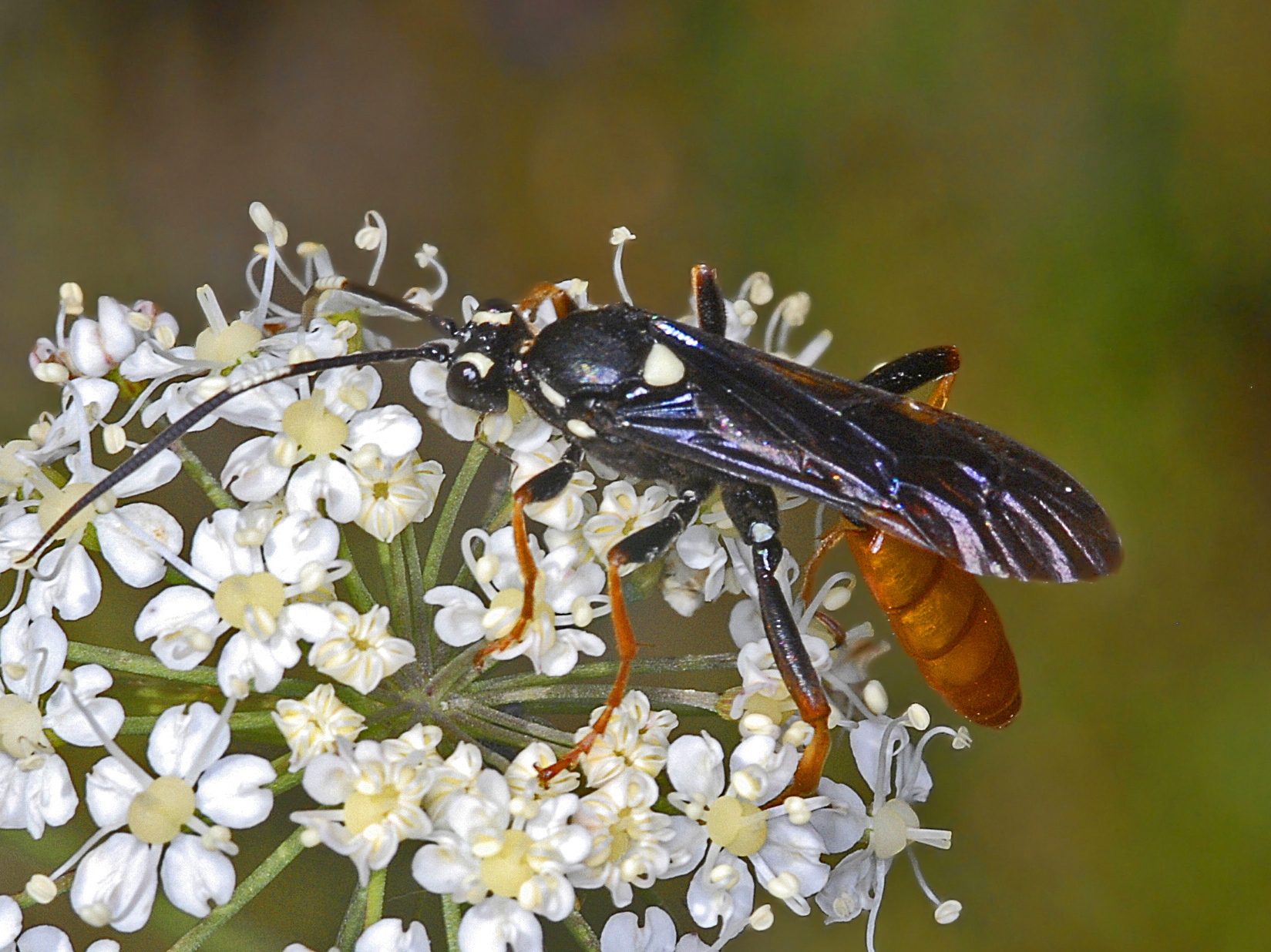 Amblyjoppa fuscipennis. Val di Rhemes, Aosta, Italy